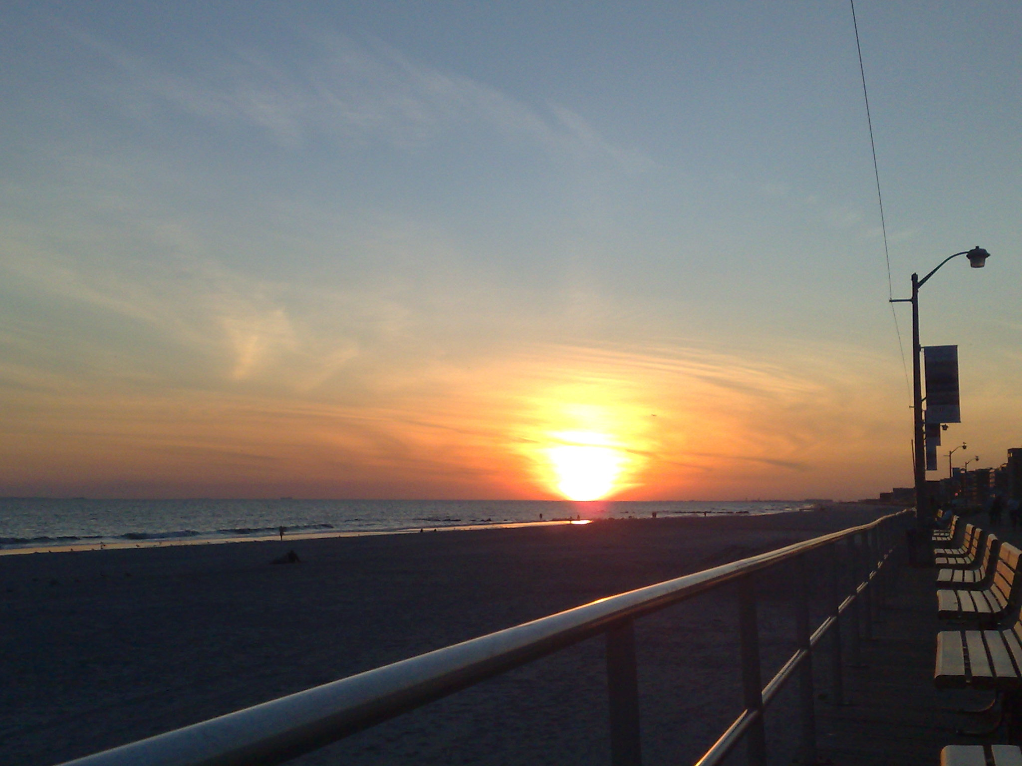 Sunset at Long Beach - Sunday 12th October 2008